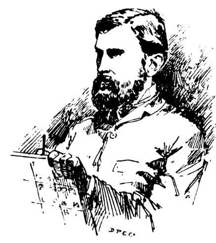 Illustration of the artist.